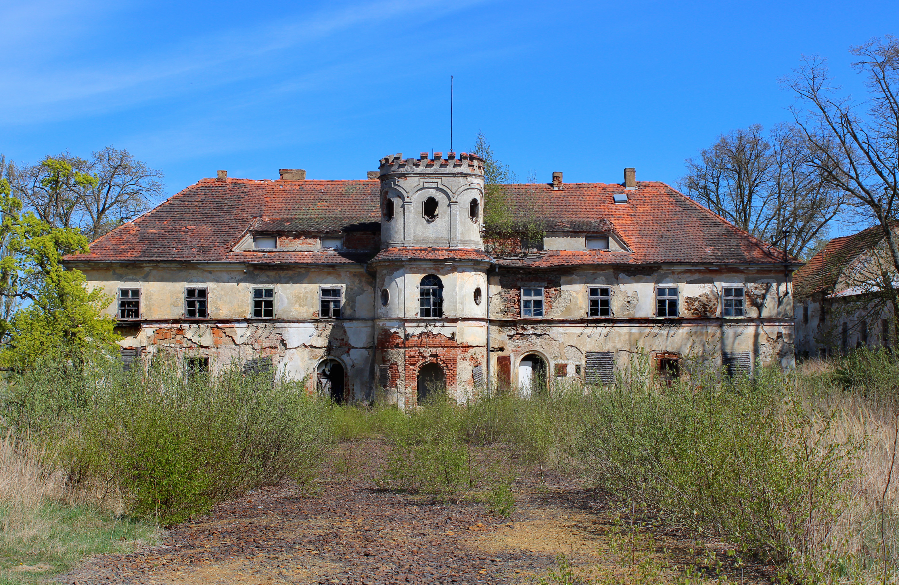 Slavice castle in Slavice village, part of Horní Kozolupy, Czech Republic